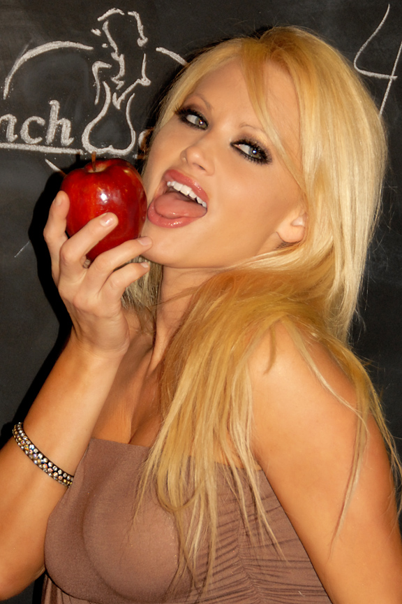 Suzanne Stokes attending the Benchwarmer "Back-to-School" Party combined with Benchwarmer Founder Brian Wallos Birthday Party at Empire, Hollywood, CA on Aug. 28, 2009 - Photo by Glenn Francis at